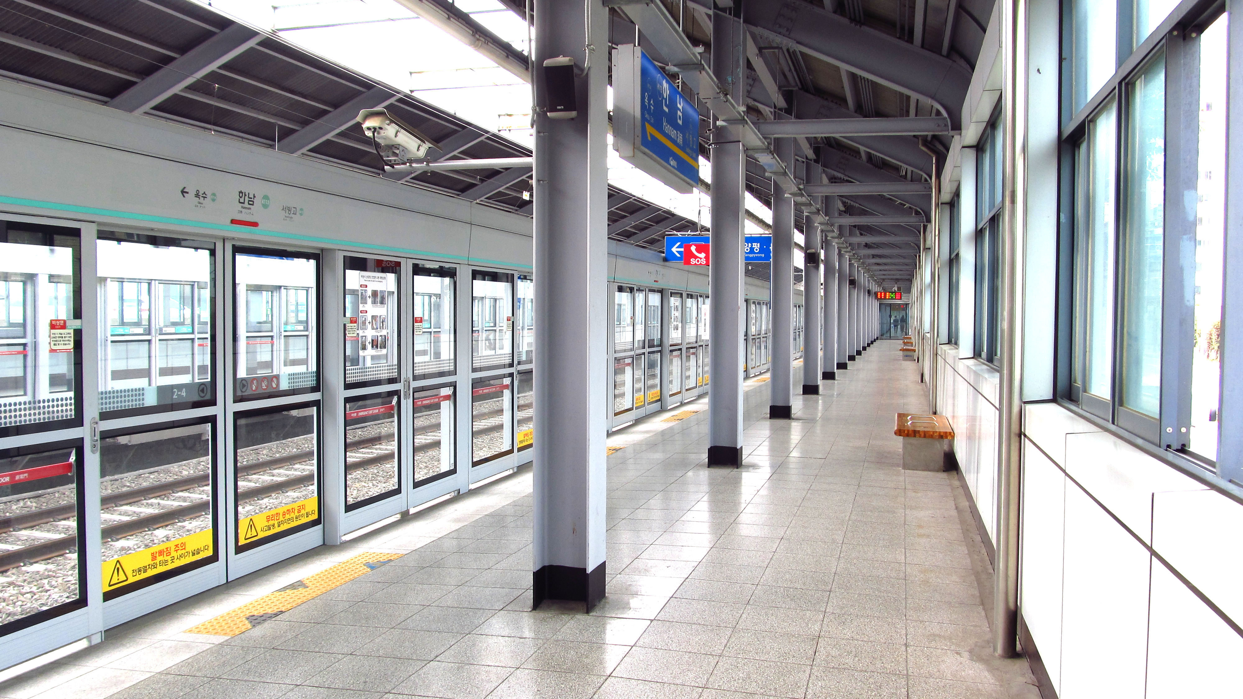 The Wangsimni-bound platform at Hannam Station on the Gyeongui-Jungang Line in Yongsan-gu, Seoul, Republic of Korea(South Korea)